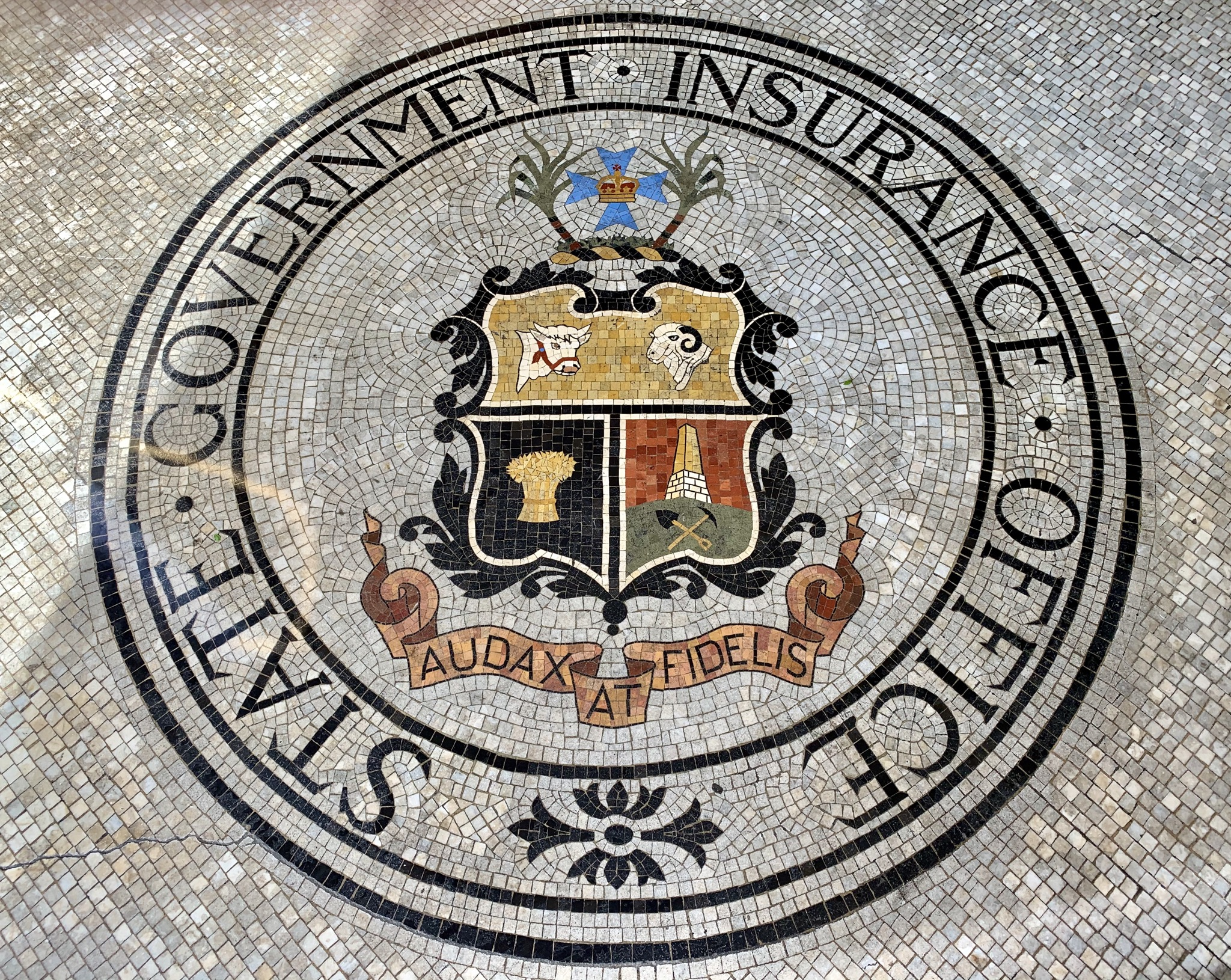 Mosaic of the State Government Insurance Office logo at Family Services Building, converted into Adina Apartment Hotel, Brisbane